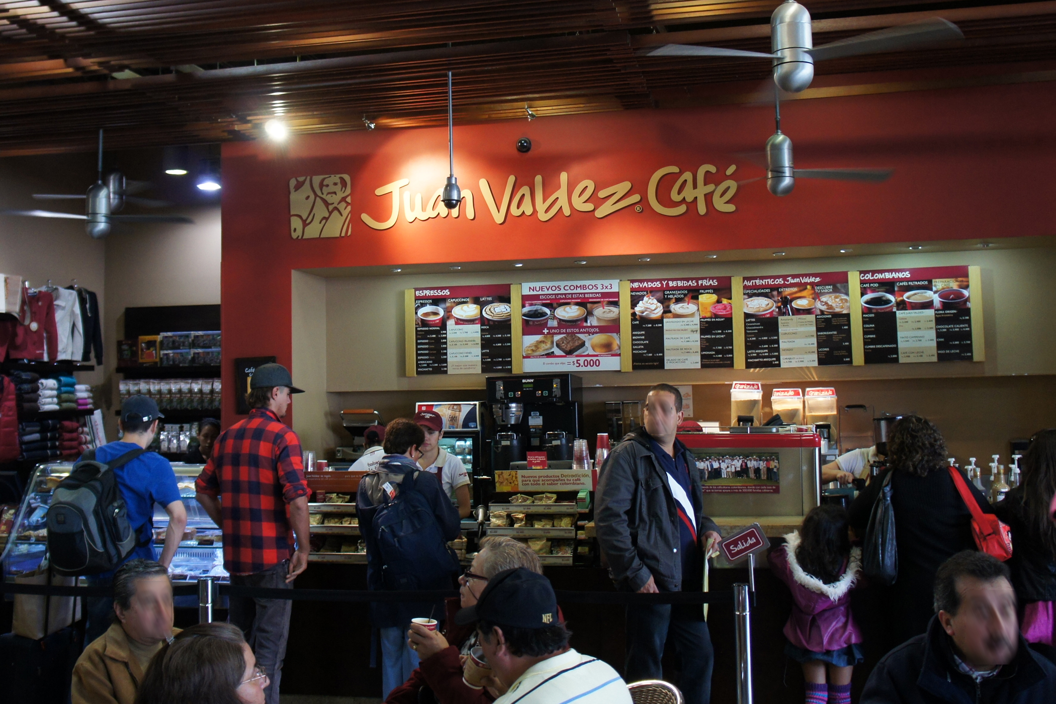 Juan Valdez Cafe coffe store at El Dorado International Airport, Bogota, Colombia